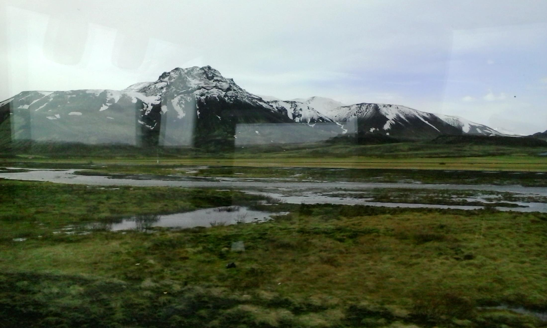 South Iceland